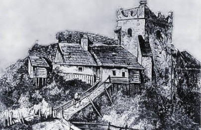 Ruins of Royal Castle in Nowy Sacz, Poland. Drawed by A. Sokolowski in 1899.